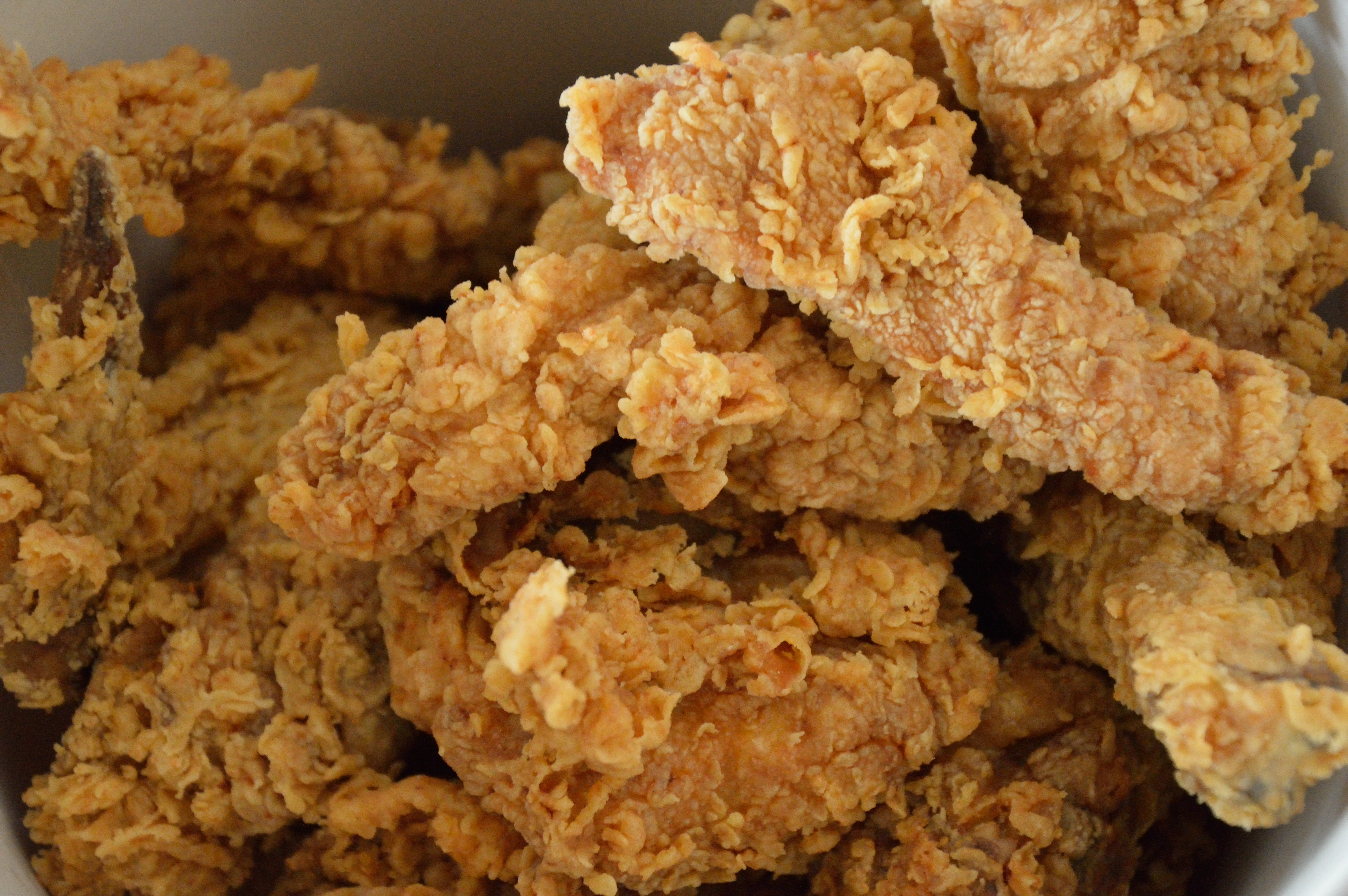 Photographed in Kolkata.